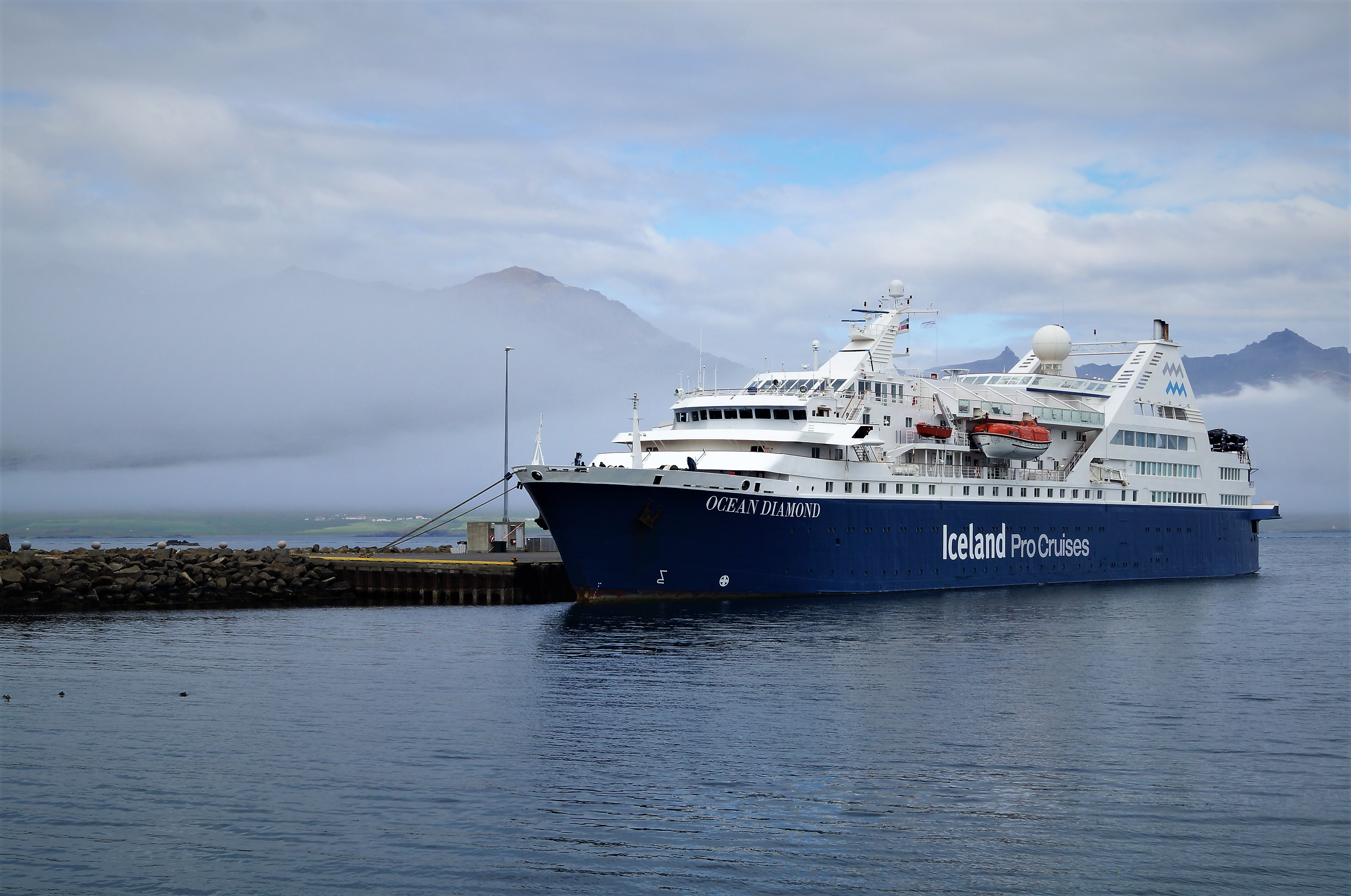 Ocean Diamond cruise ship at Djúpivogur harbour